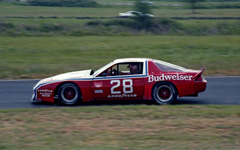 Willy T. Ribbs driving a DeAtley Motorsports Chevy Camaro at Portland International Raceway, USA.